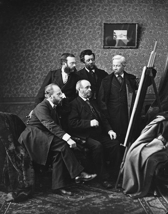 Photograph, The Critics, Mr. Sandham and friends, Montreal, QC, 1880, Notman & Sandham, Silver salts on glass - Wet collodion process ? 25 x 20 cm. This is a picture of Henry Sandham, photographer William Notman's partner from 1877 to 1882, surrounded by his friends John Griffiths, Robert Harris, Thomas S. Scott and Napoléon Bourassa.